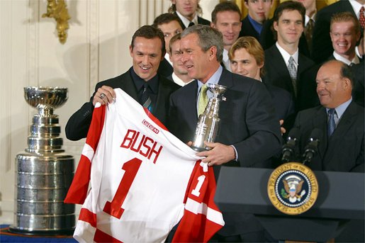 Receiving a jersey from team captain Steve Yzerman, President George W. Bush welcomes the Detroit Red Wings, winners of the NHL 2002 Stanley Cup Championship, to the East Room of the White House Friday, Nov. 8.